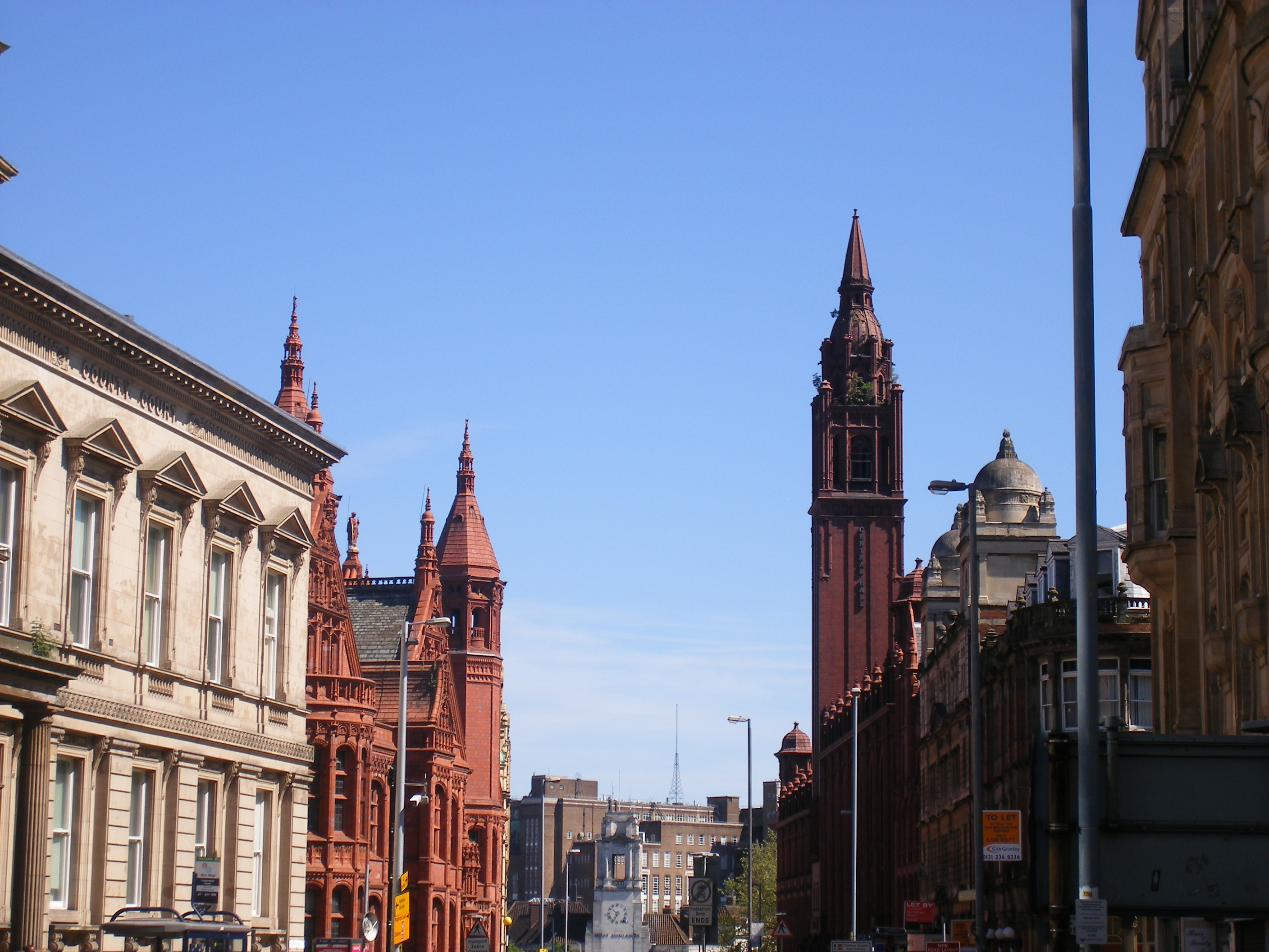 View from Old Square of the Victoria Law Courts, the old County Court building and the Methodist Central Hall building The Victoria Law Courts is a Grade I listed red brick and terracotta building that now houses the Birmingham Magistrates Court. It was designed by Aston Webb & Ingress Bell of London. It is faced in entirely deep red terracotta from the clay of Ruabon in North Wales. The foundation stone was laid in 1887 by Queen Victoria, the year of her Golden Jubilee. It was built by Birmingham firm John Bowen and Sons. The court was opened in 1891 by the Prince and Princess of Wales (the future King Edward VII and Queen Alexandra). The Methodist Central Hall is a Grade II* listed building, and is made of terracotta. At 196 - 224 Corporation Street. It is also listed as being at 1, 3 and 5 Ryder Street. Built 1903 - 04 by E and J A Harper. Red brick and terracotta. Three storeys; 5 bays to the left, 7 to the right, of the tall slender tower. Ground floor with shops (nos 208, 214, 216 and 220 with their original shop fronts) and the deep arched entrance porch with excellent figure carving over and within it. To the left, couplets of depressed arched windows above tall canted bay windows; to the right, the main hall on the 1st floor represented by large round-arched traceried windows above small bow windows. Across the top a parapet and little polygonal turrets, their capping differing between left and right. The tower rises square and sheer almost to the top where its elaboration of detail matches that of the lower facades. The return on Ryder Street is similar and has more original shop fronts eg No 5 and especially No 3 on the corner. Methodist Central Hall - 1, 3 and 5 Ryder Street and 196 - 224 Corporation Street - Heritage Gateway